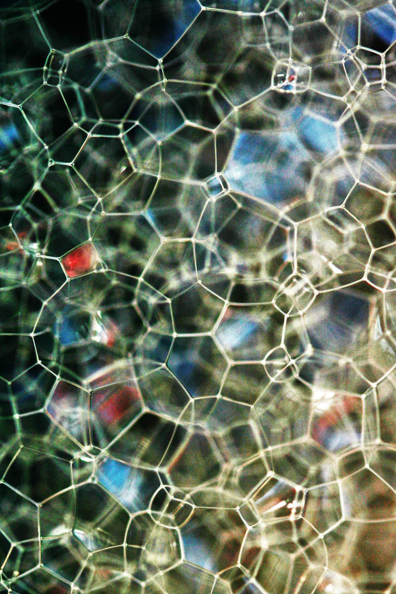 God takes a bath and you are here - on the edge of a cosmic soap bubble. Bubbles turn out to be a pretty good model for the clumpiness of matter -- lots of stuff along the edges and not much else in between.